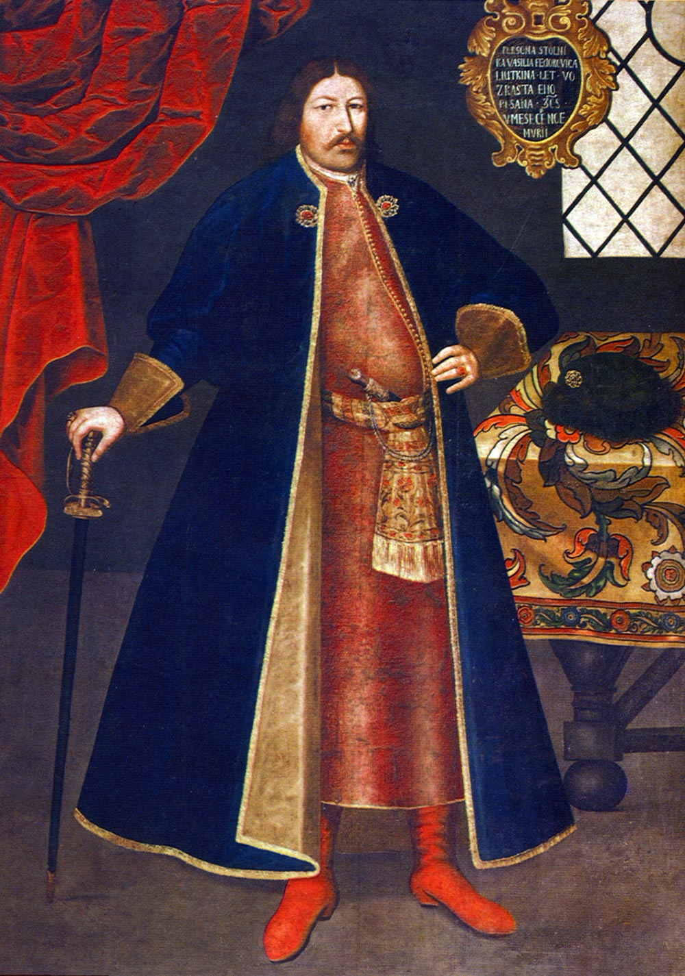 Portrait of Vasily Lyutkin